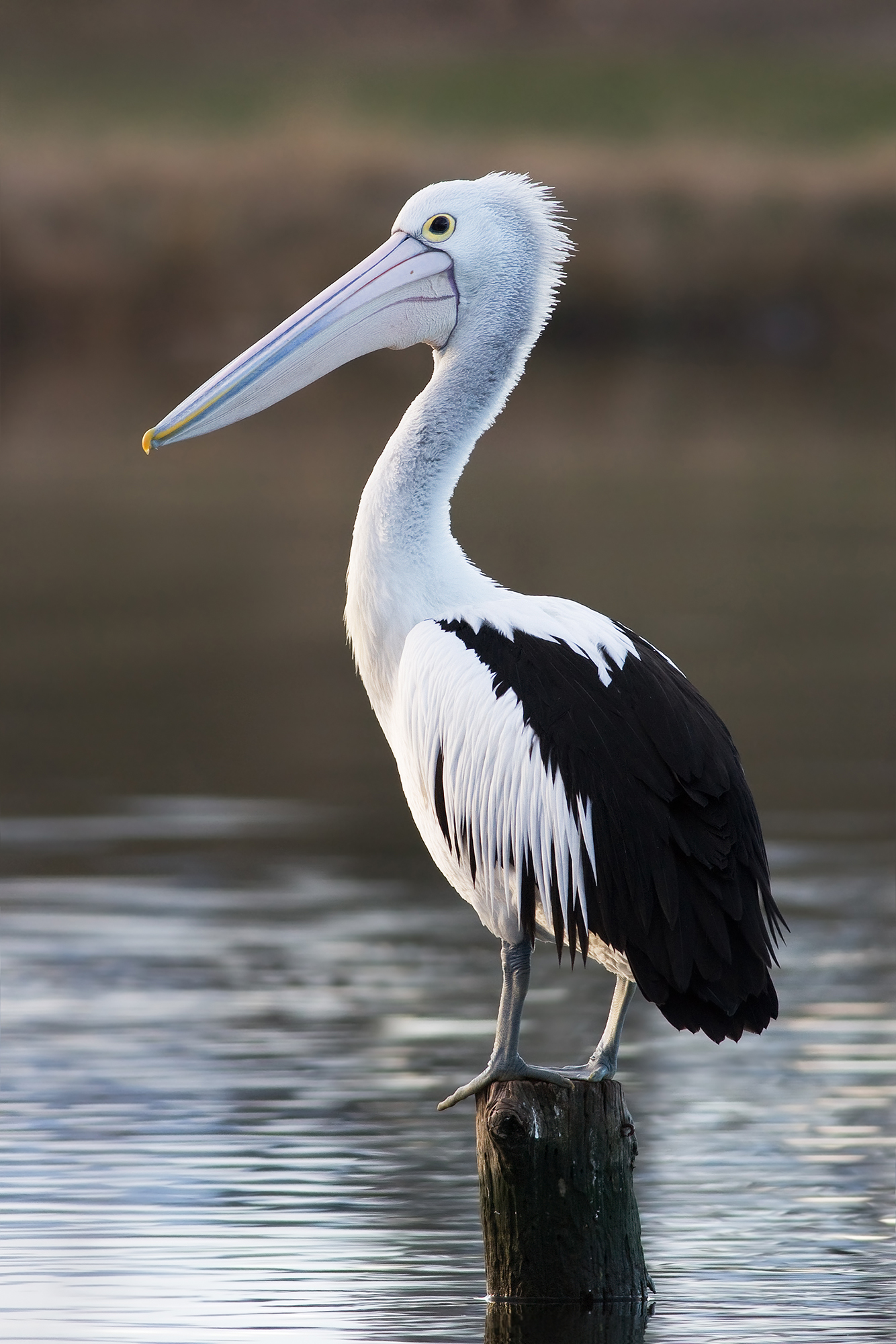 Australian Pelican (Pelecanus conspicillatus), Claremont, Tasmania, Australia